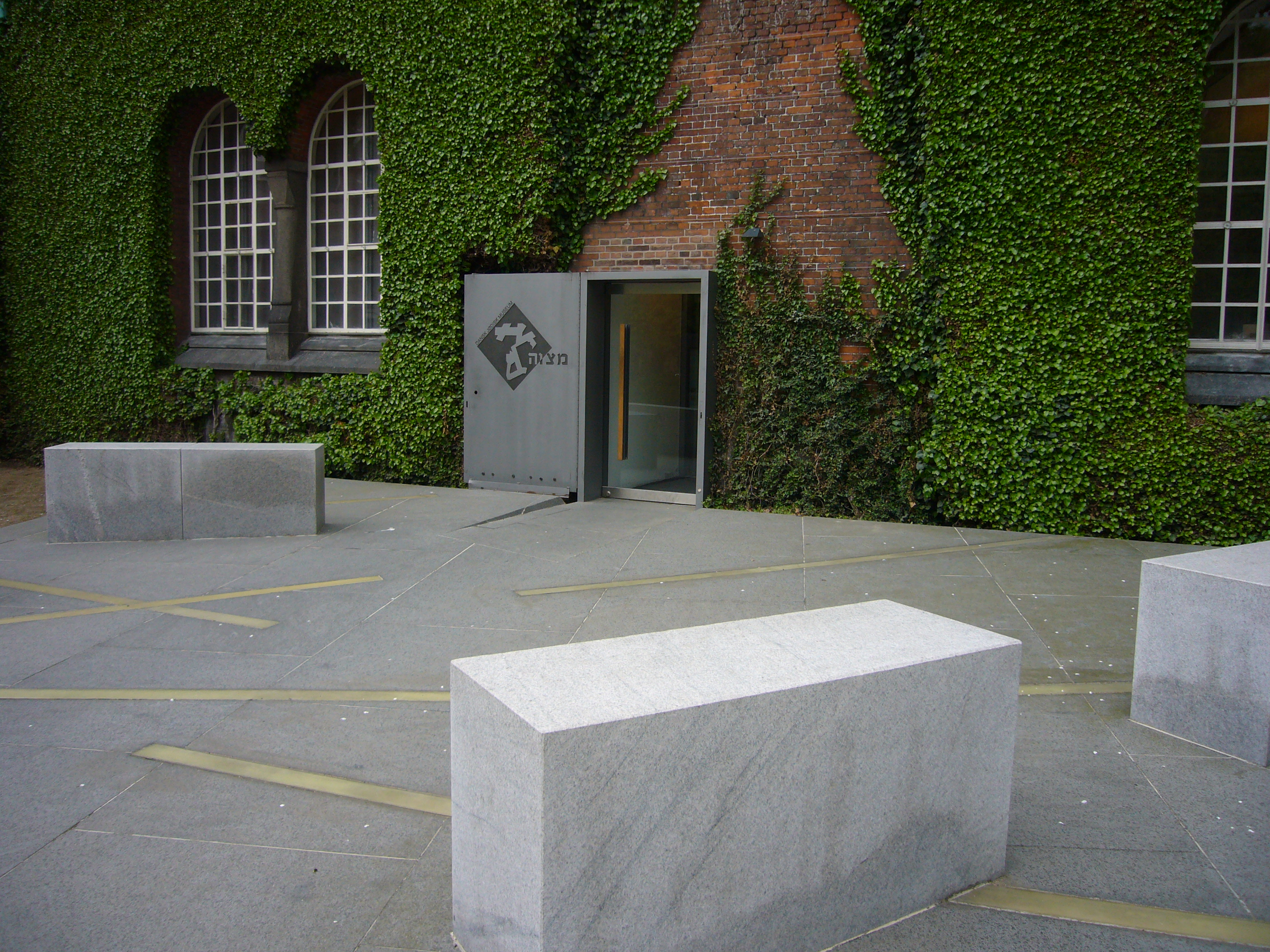 Entrance to the Copenhagen Jewish Museum The entrance to the Copenhagen Jewish Museum. The space was designed by Daniel Libeskind, and is very striking (unfortunately, cameras aren't allowed inside).